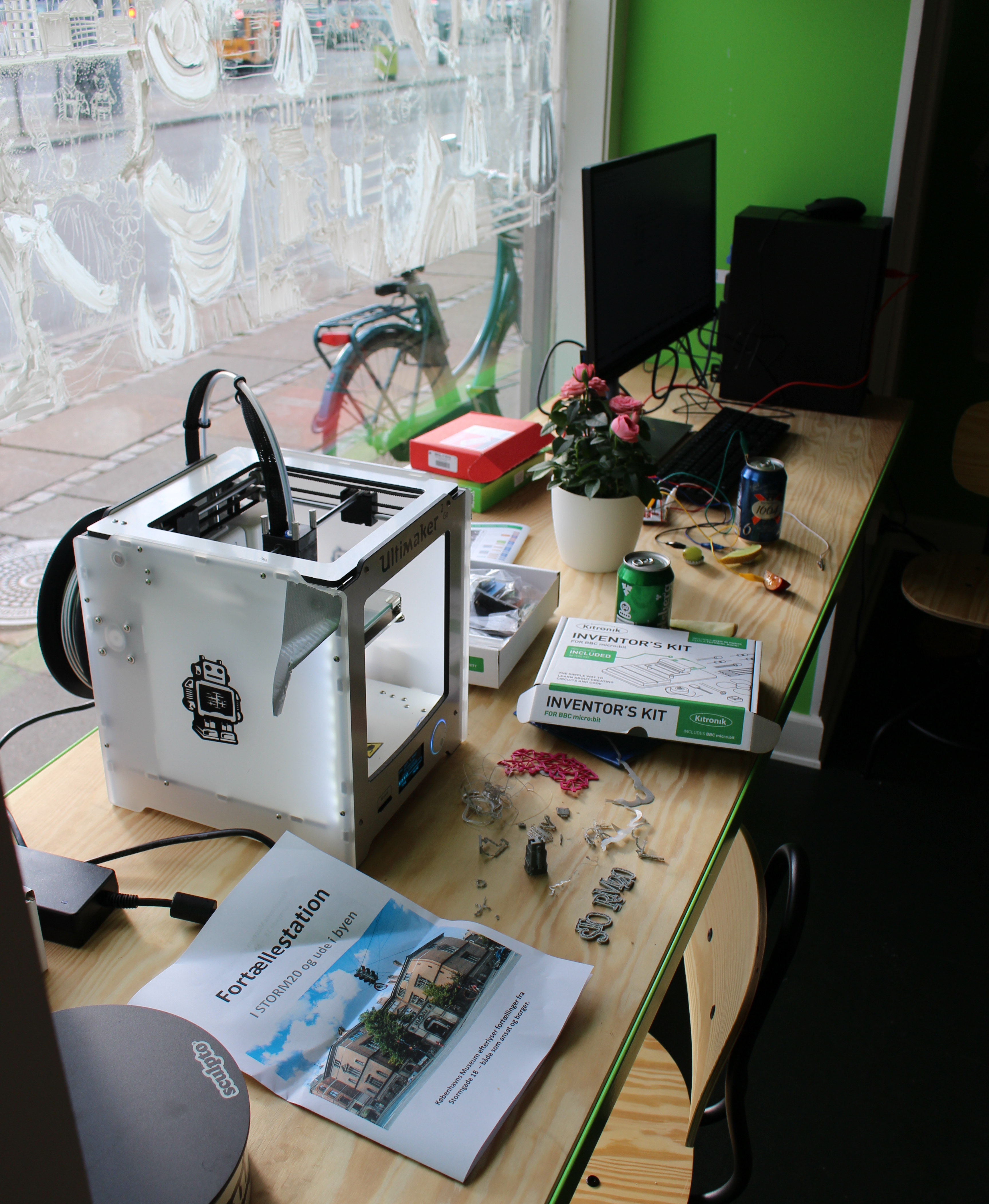 Interior of STORM20, a makerspace in central Copenhagen with an Ultimaker 3D printer.